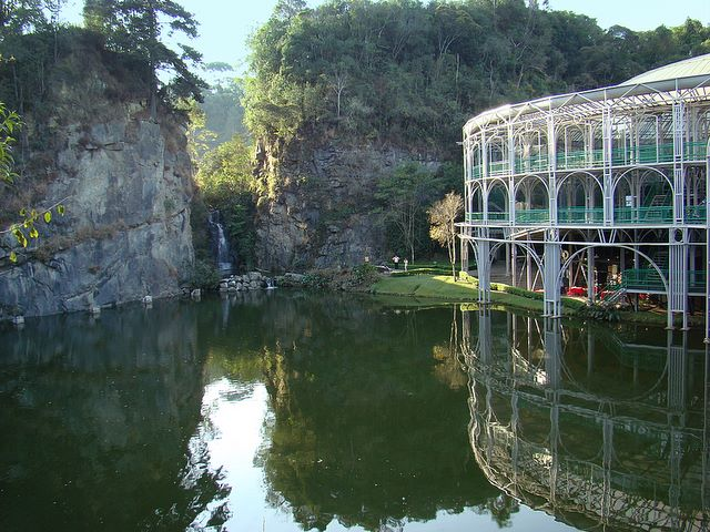 Wire Opera House, Curitiba, Paraná, Brazil